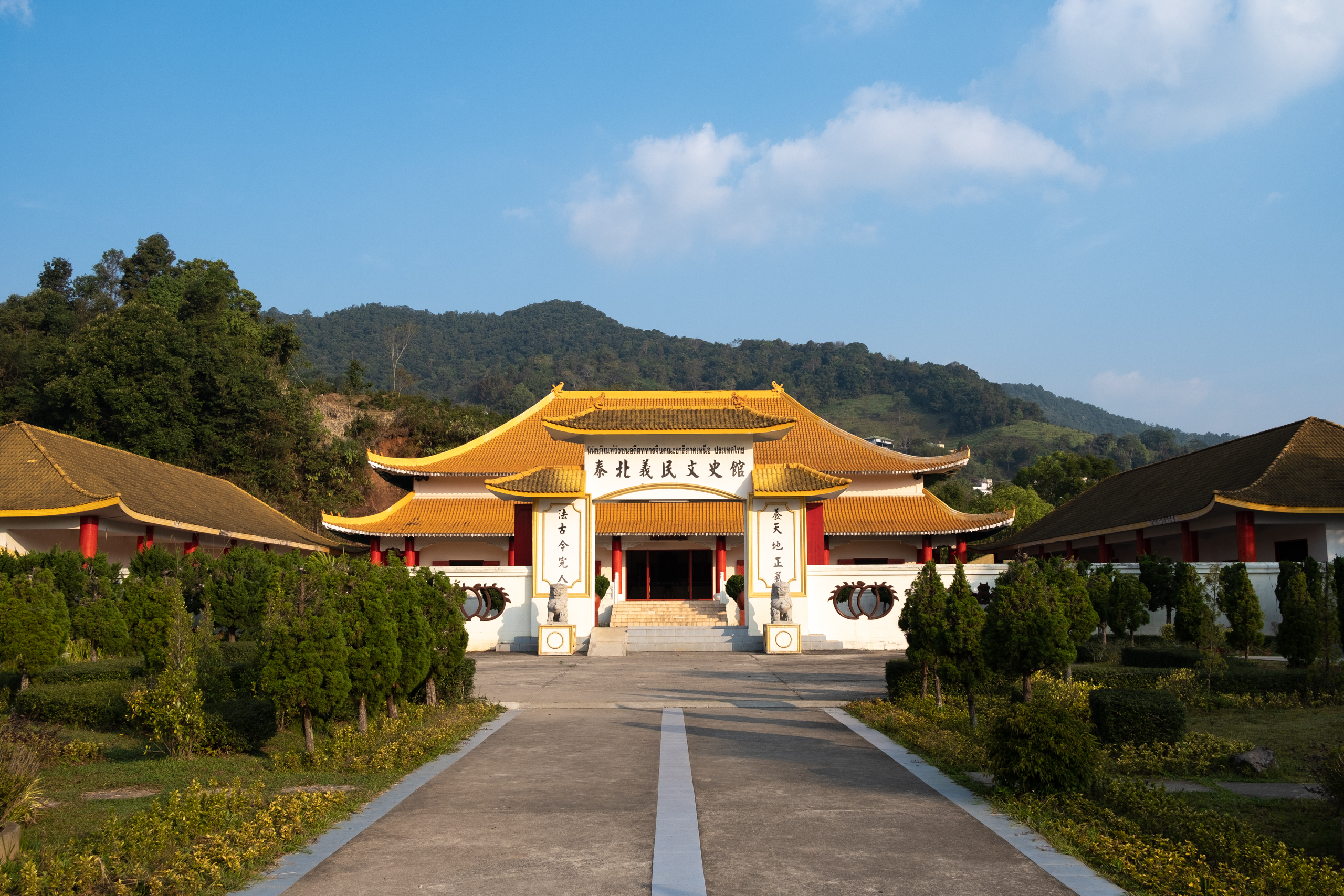 The Martyrs' Memorial Hall of the Kuomintang's 93rd division in Doi Mae Salong